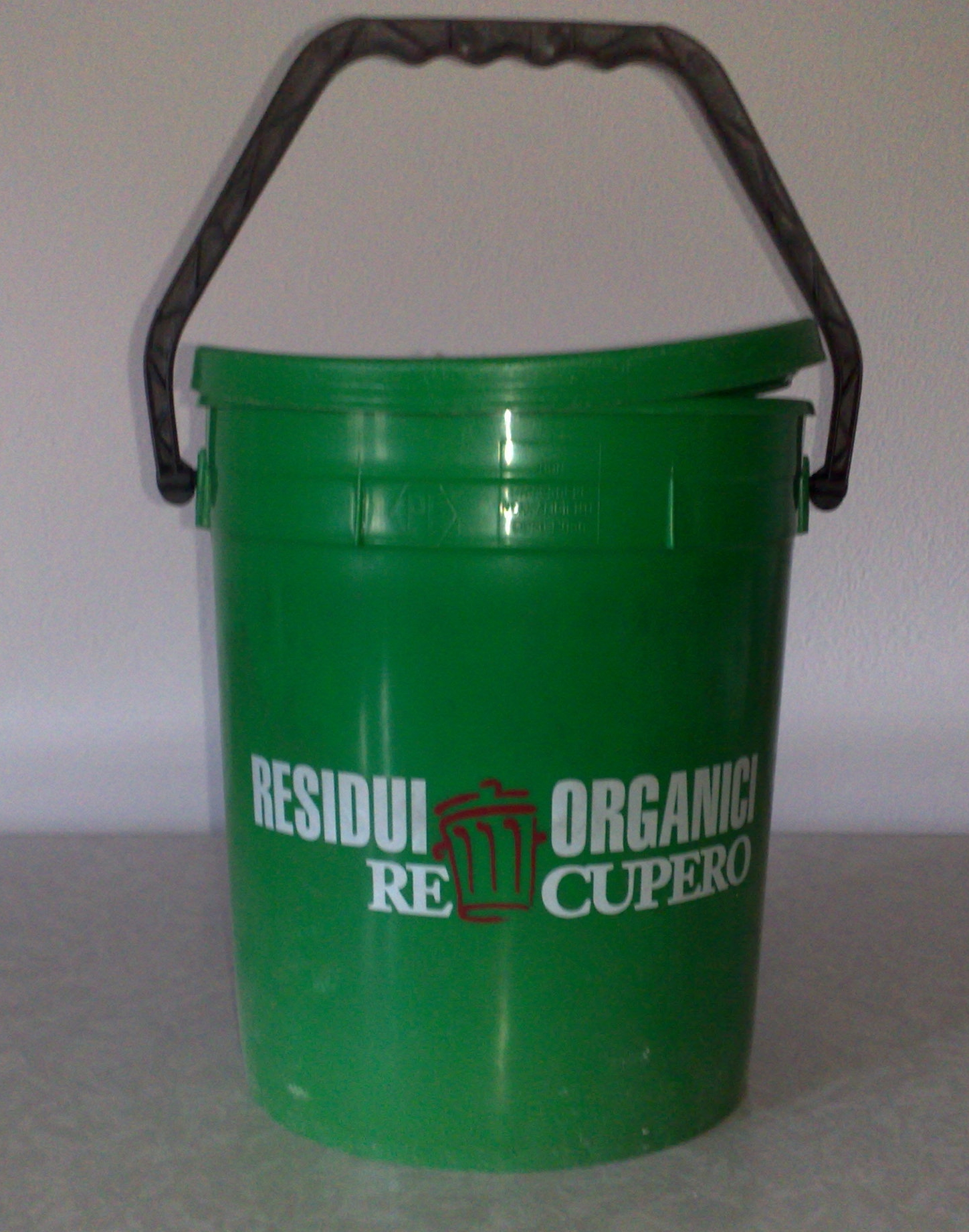 Rubbish bin for organic waste